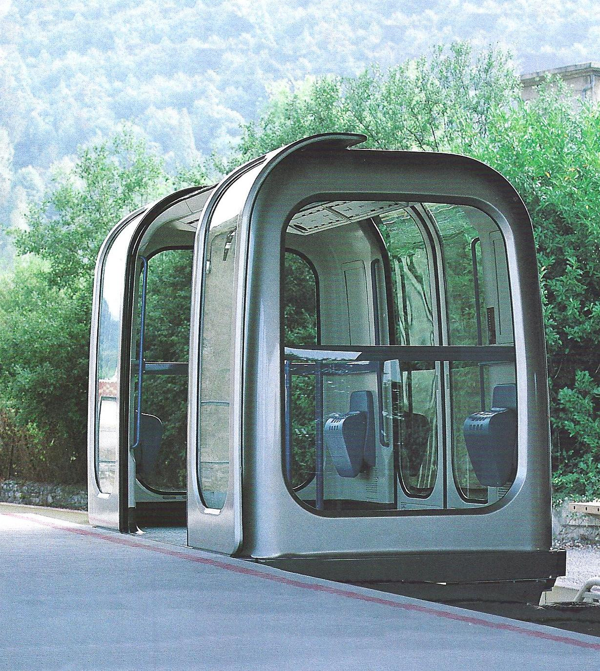 Johan Neerman